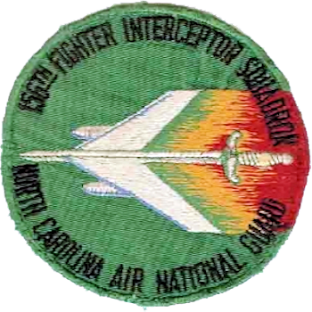 156th Fighter-Interceptor Squadron - Emblem